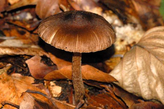 Inocybe asterospora from Commanster, Belgian High Ardennes .